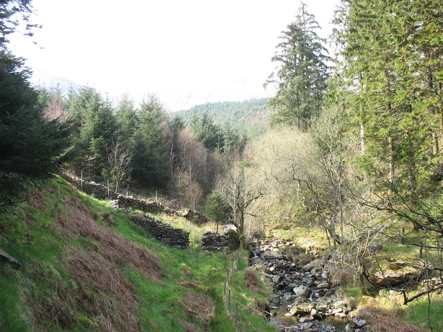 Cwm Meillionen, near to Beddgelert, Gwynedd, Great Britain.